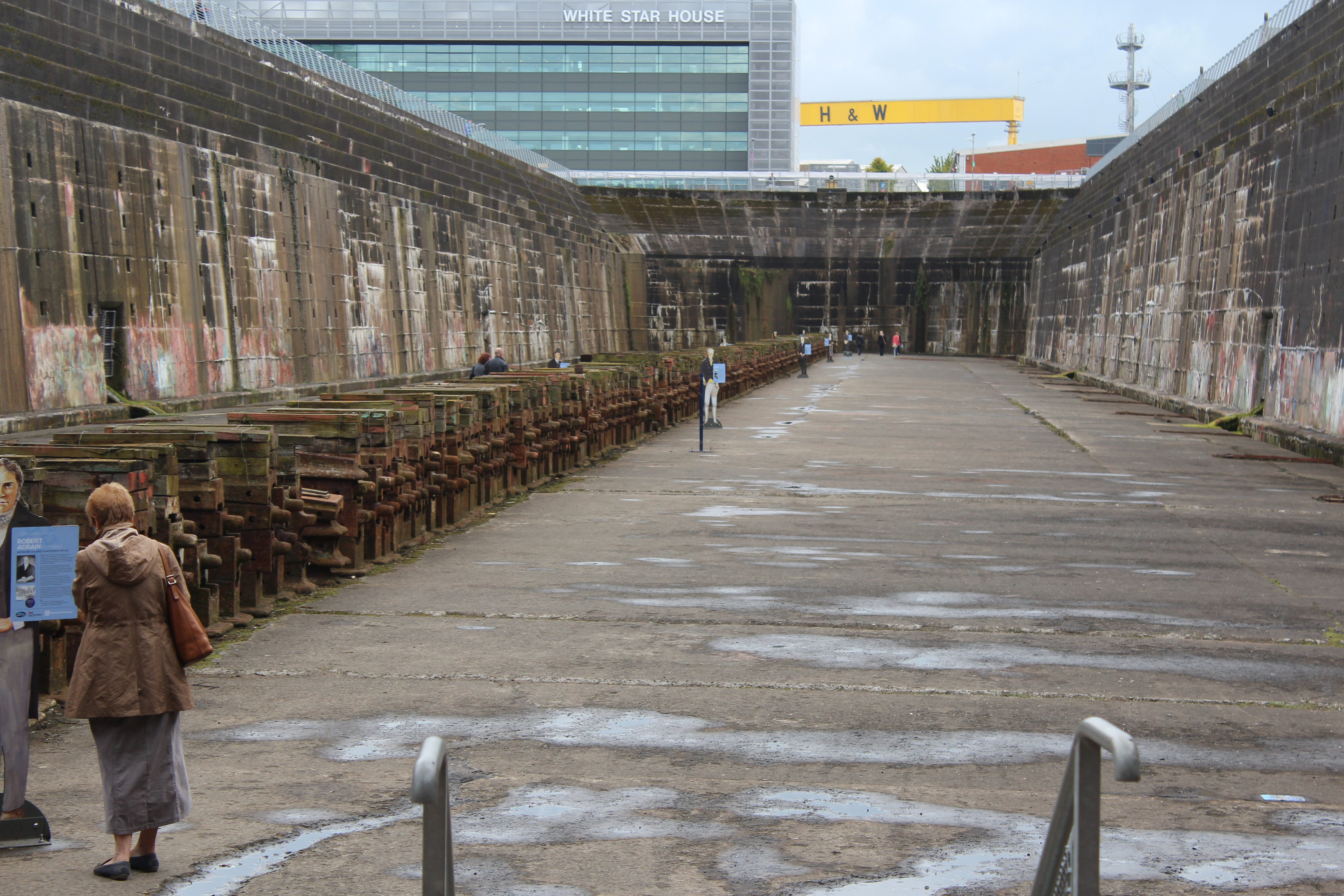 Thompson Graving Dock, Harland & Wolff shipyard, Belfast. At the time this graving dock which was 850 ft (259 metres) long was the largest graving dock in the world. RMS Titanic, operated by the White Star Line was built in this long dry dock. The Titanic itself was 882 ft (269 metres) in length but at its waterline it had the length of the graving dock. The current offices of the White Star Line and a gantry crane owned by Harland and Wolff can be seen in the background.